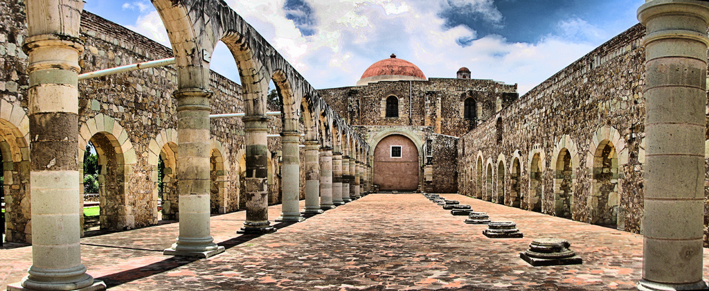 Photo of Dominican ex-convent of Santiago Apóstol in Cuilapan de Guerrero, Oaxaca, Mexico